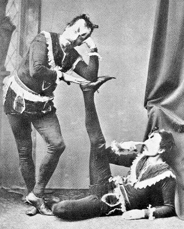 Victorian publicity photograph taken circa 1870, and long since in the public domain. The Payne brothers were the most famous "Clown" and "Harlequin" in harlequinades of the Victorian era.